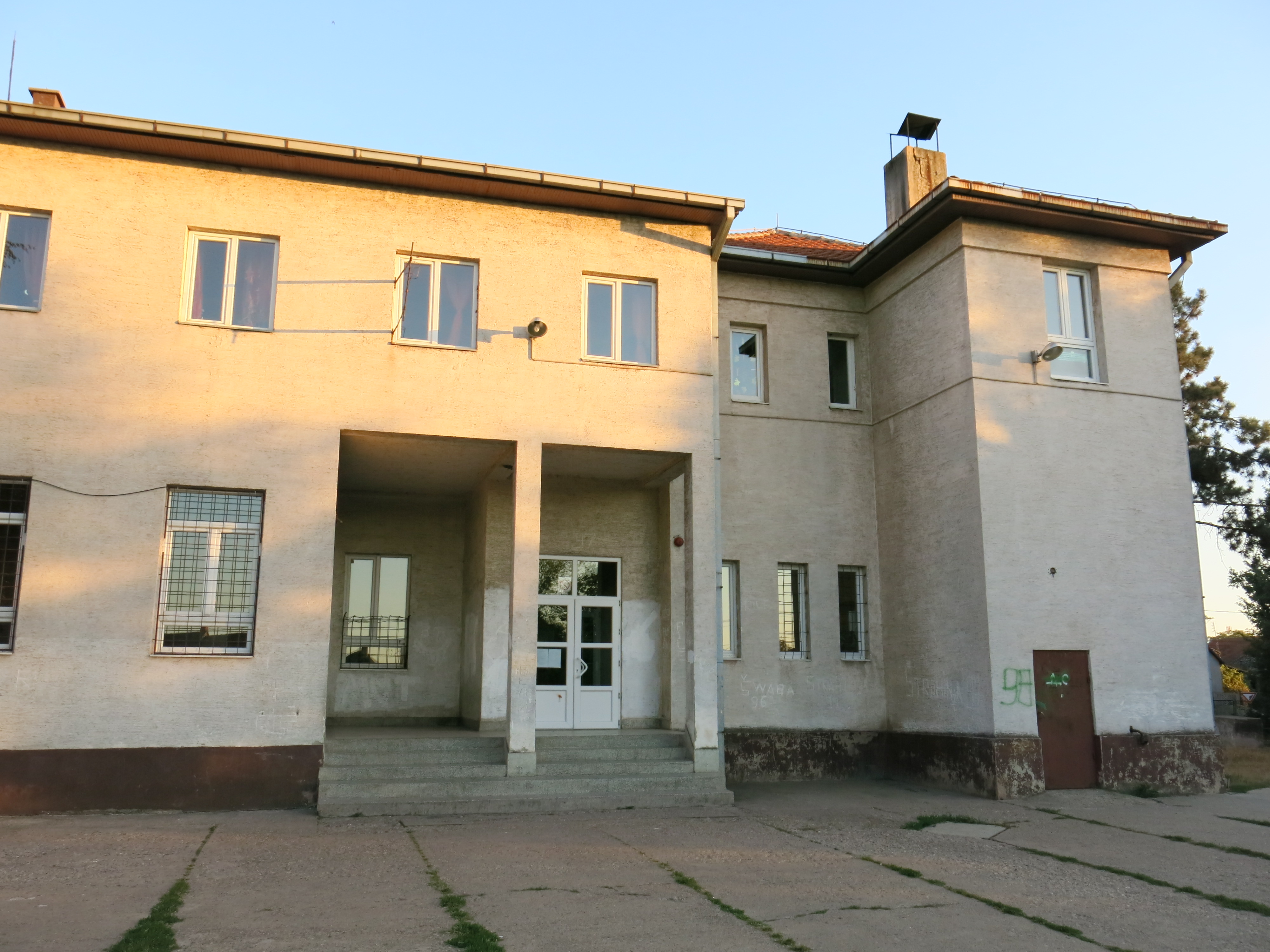 Vranovo, Elementary school Dositej Obradović